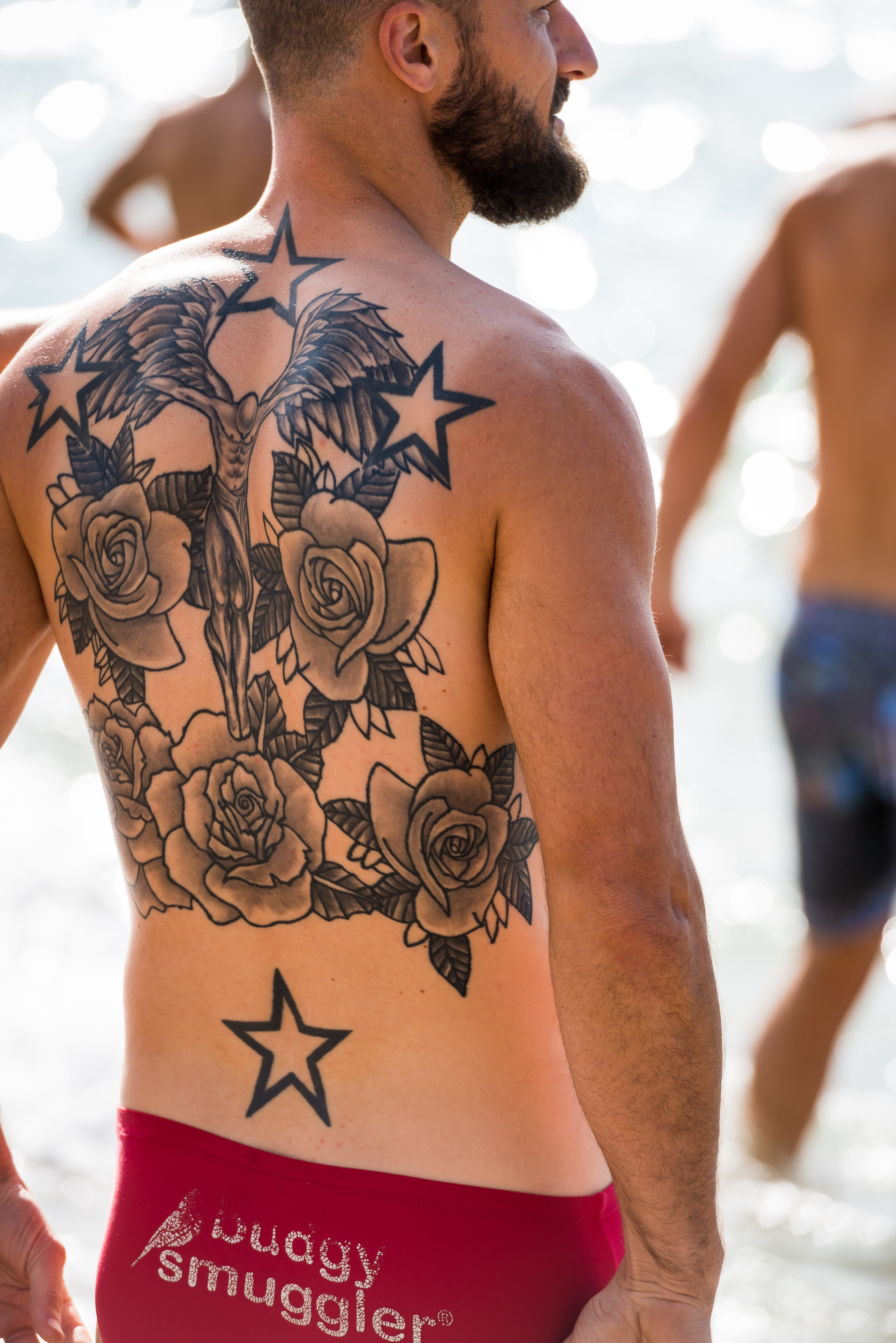 Sydney Swans Nick Malceski Tatoos